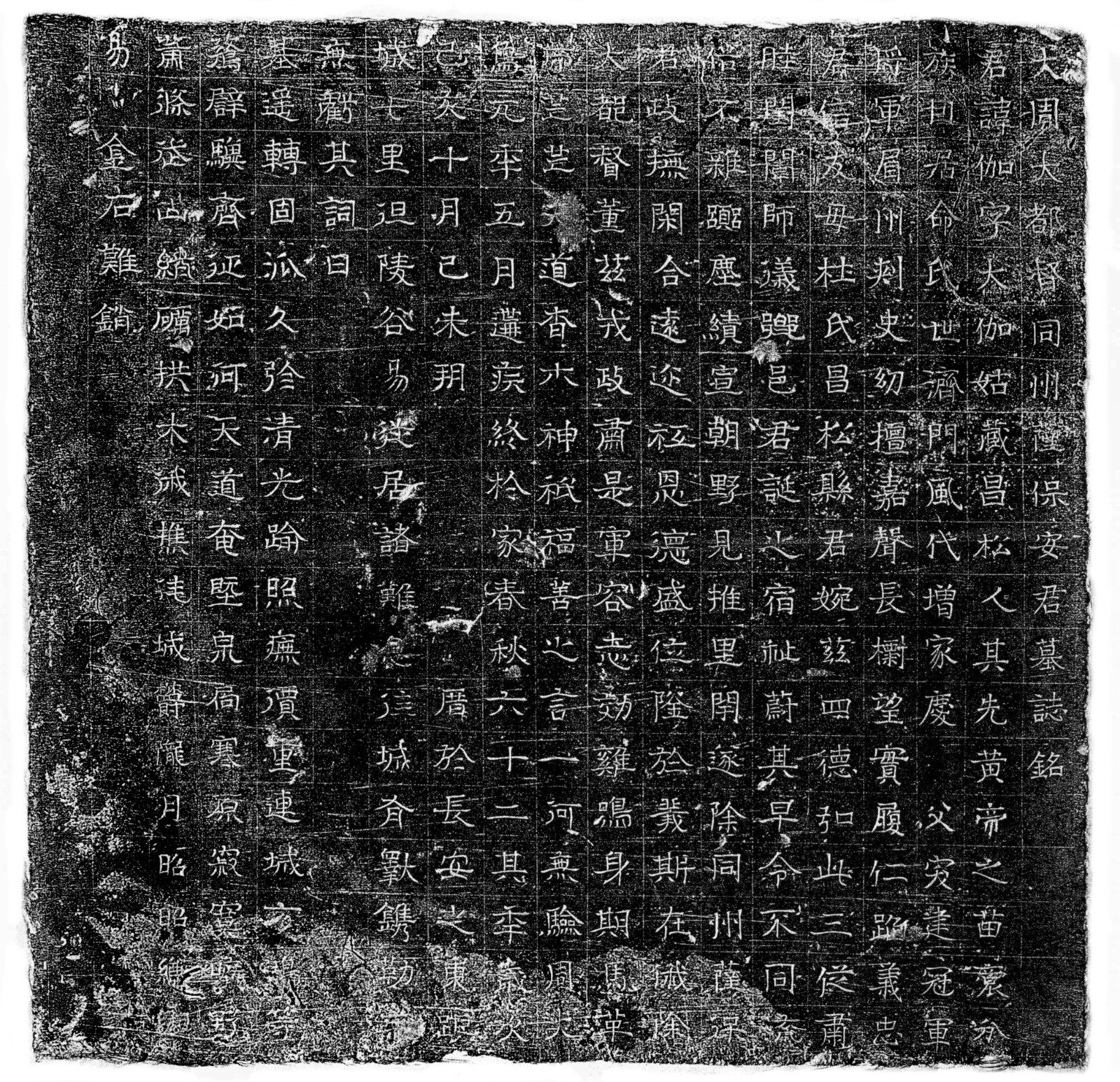 The rubbing of An Chia’s epitaph.